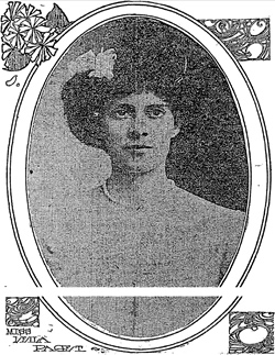 Louise Margaret Leila Wemyss Paget, British humanitarian